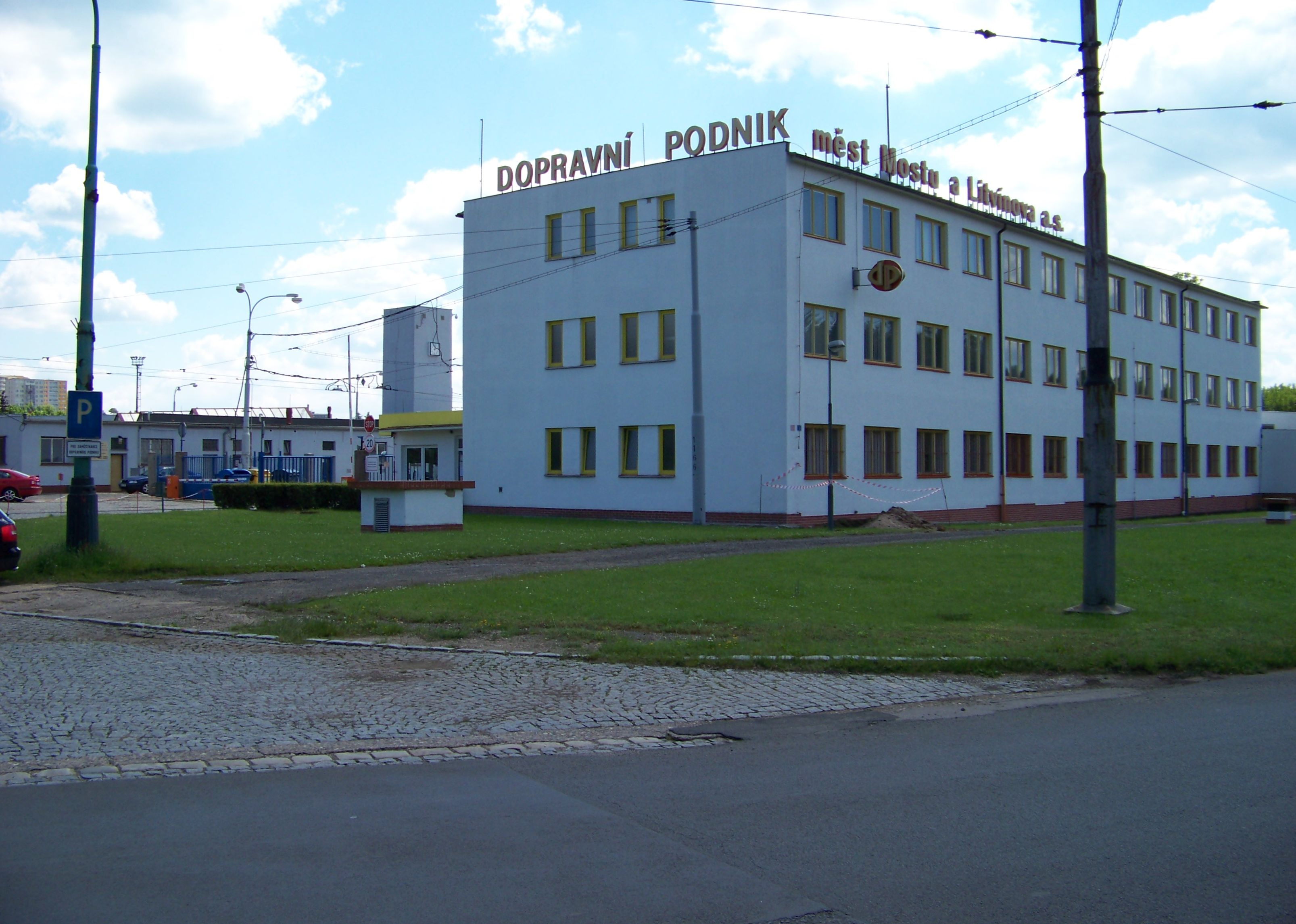 Most, Most District, Ústí nad Labem Region, Czech Republic. Tř. Budovatelů, a depot and headquarters of DPmML.